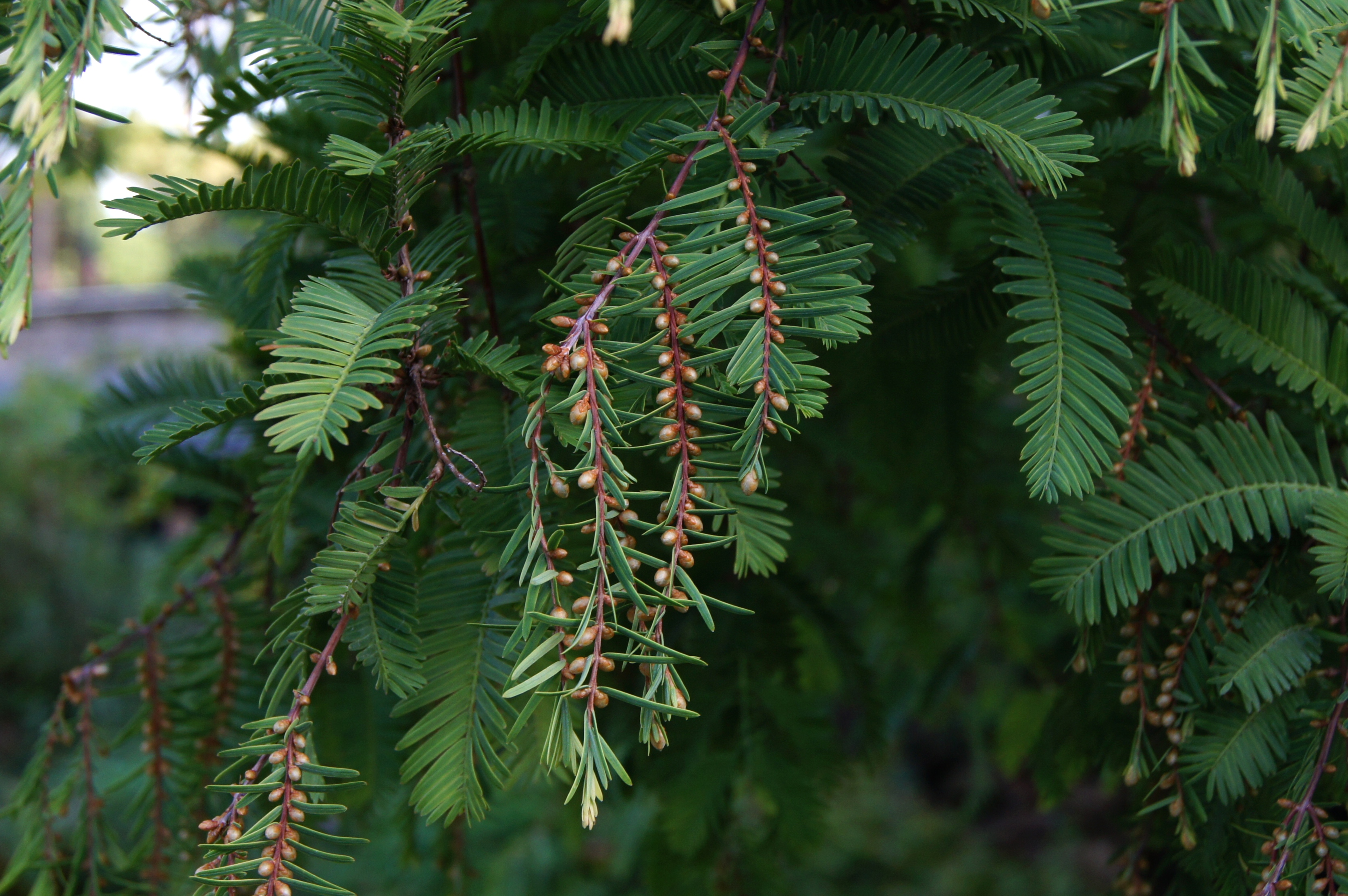 Metasequoia glyptostroboides Hu & Cheng. Historical tree of the Jardin des Plantes de Paris, planted in 1948. buds of male flowers. Critically endangered species